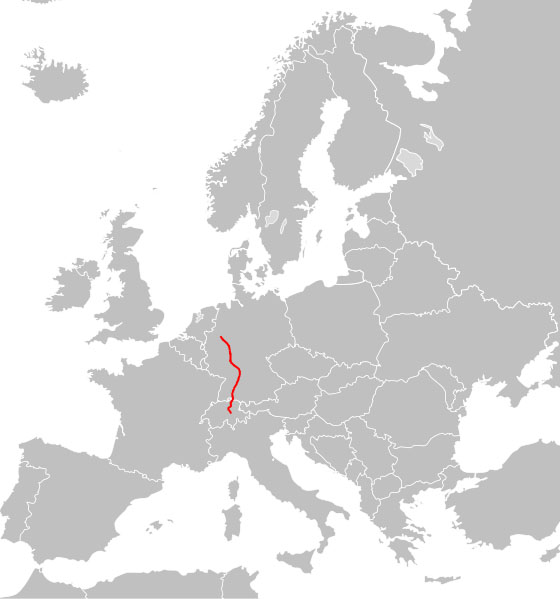 The European route 41